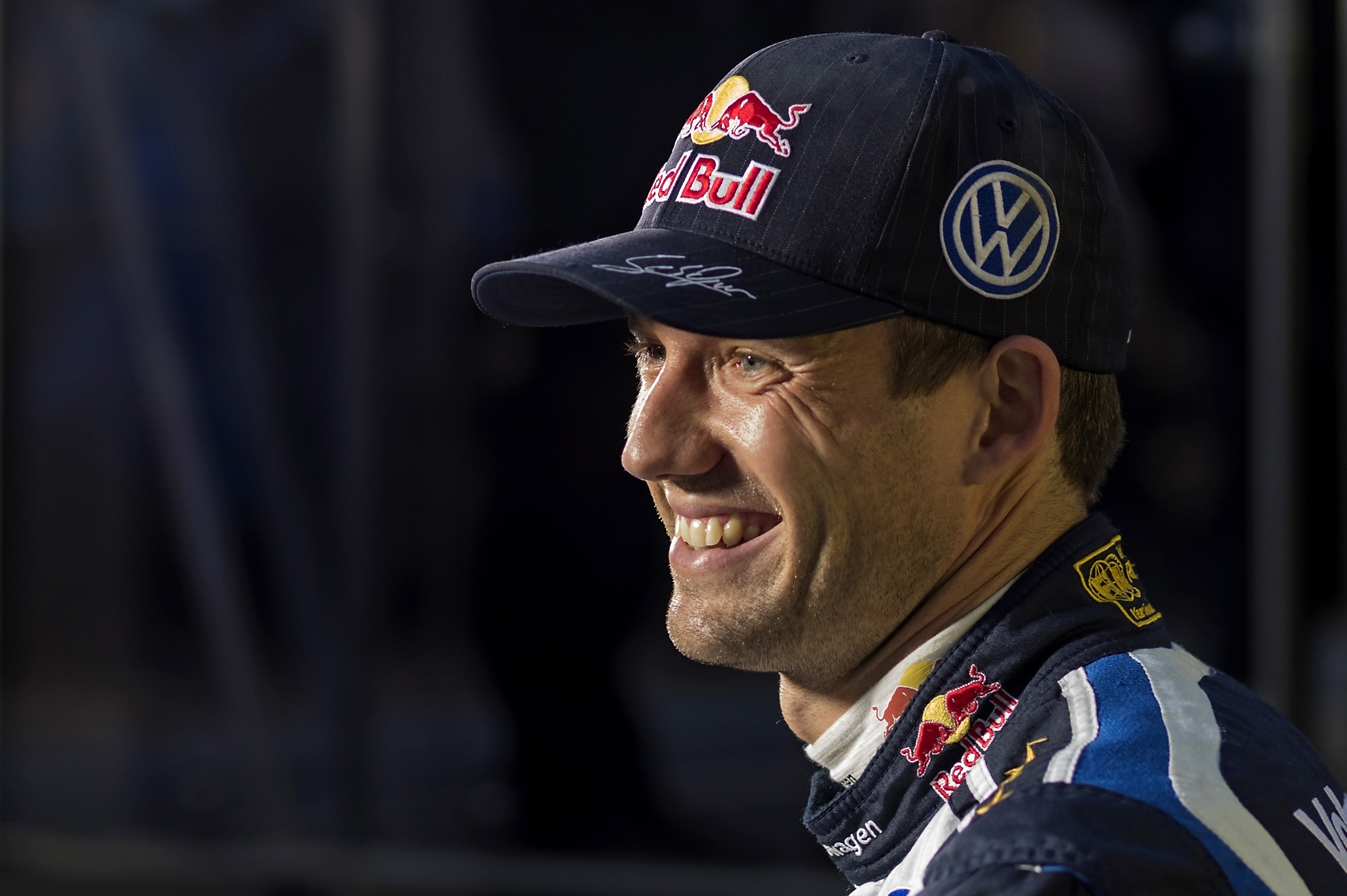 French rally driver Sébastien Ogier at 2016 Wales Rally GB.